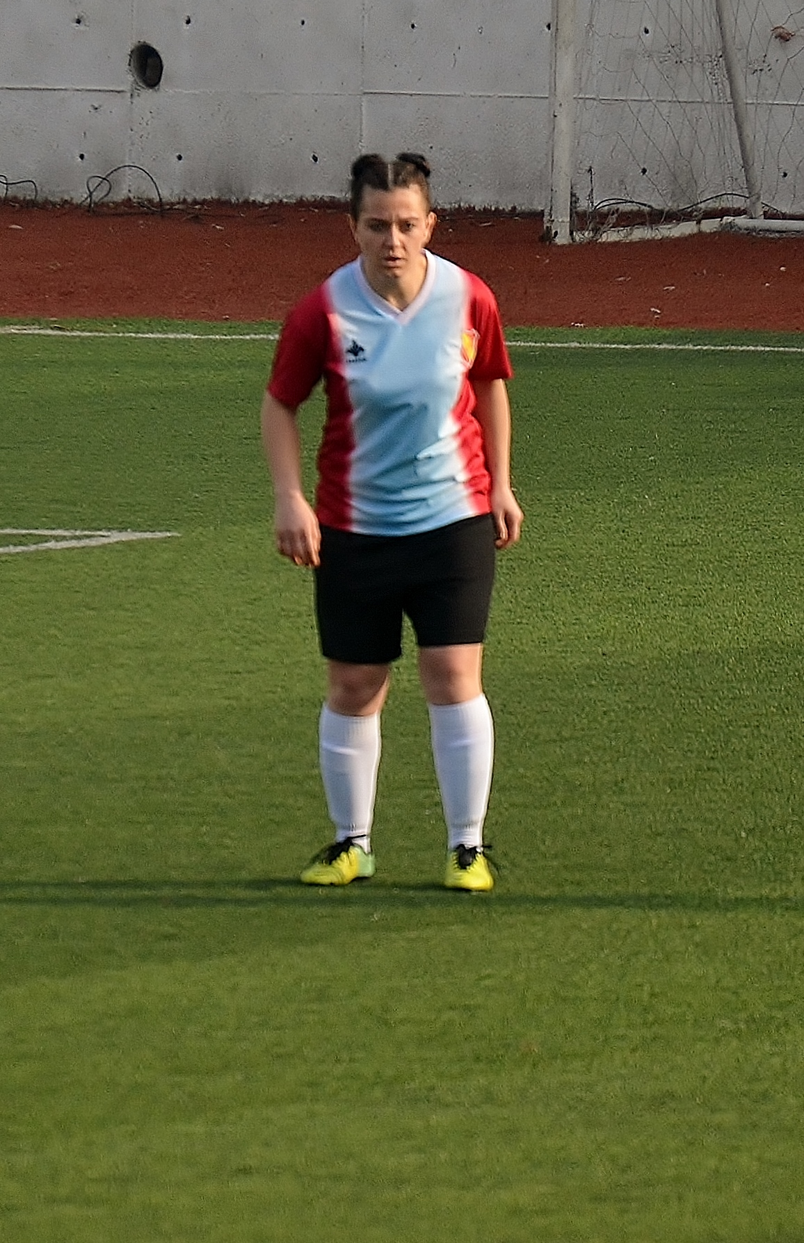 Sibel Nohut playing for Trabzon İdmanocağı in the 2014-15 season